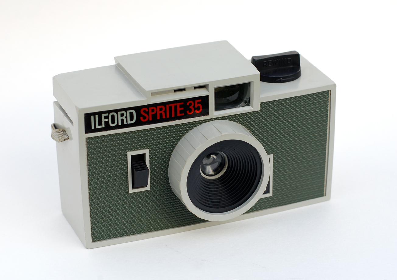 Plastic 35mm camera made in England in the mid-1960s. Same camera as the Agilux Agiflash 35, obviously not to be confused with the original Agiflash.